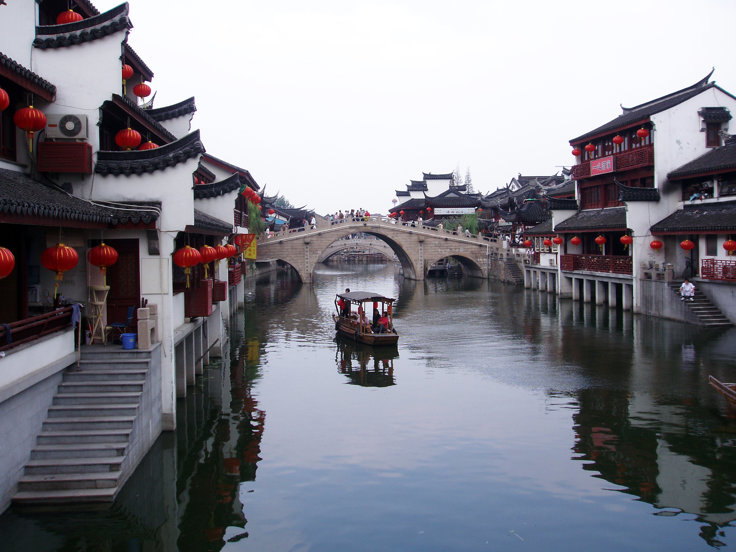 A village on rivers in Shanghai suburban, China